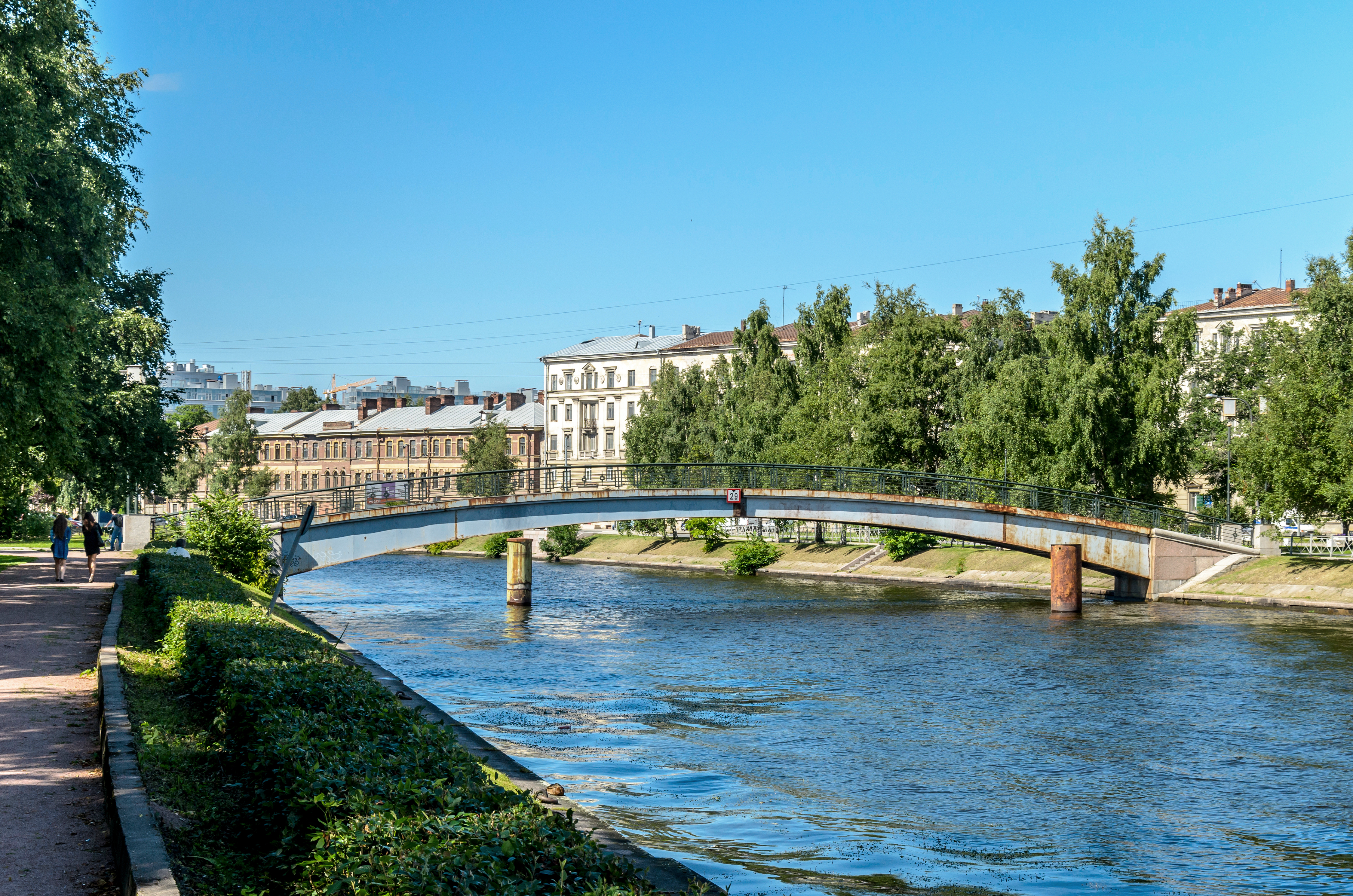 4th Zhdanovsky Pedestrian Bridge in Saint Petersburg